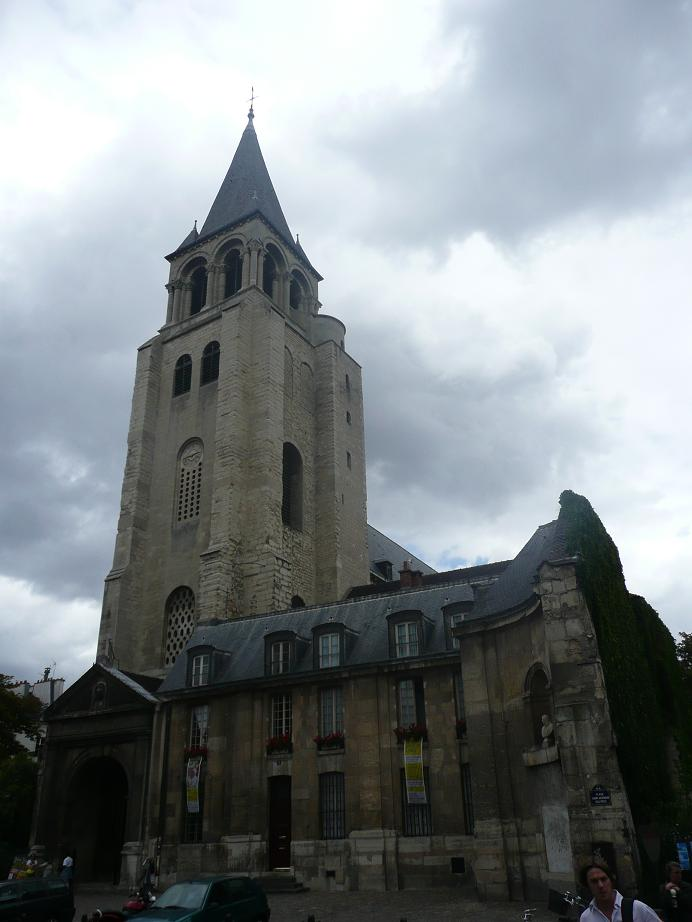 Saint-Germain-des-Prés Abbey, Paris